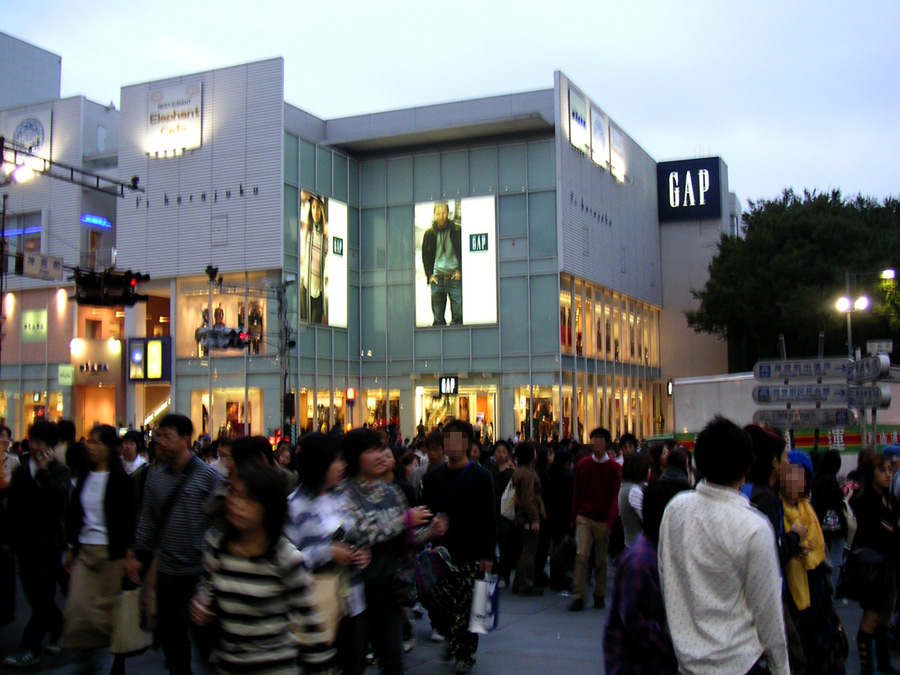 Center of Harajuku.